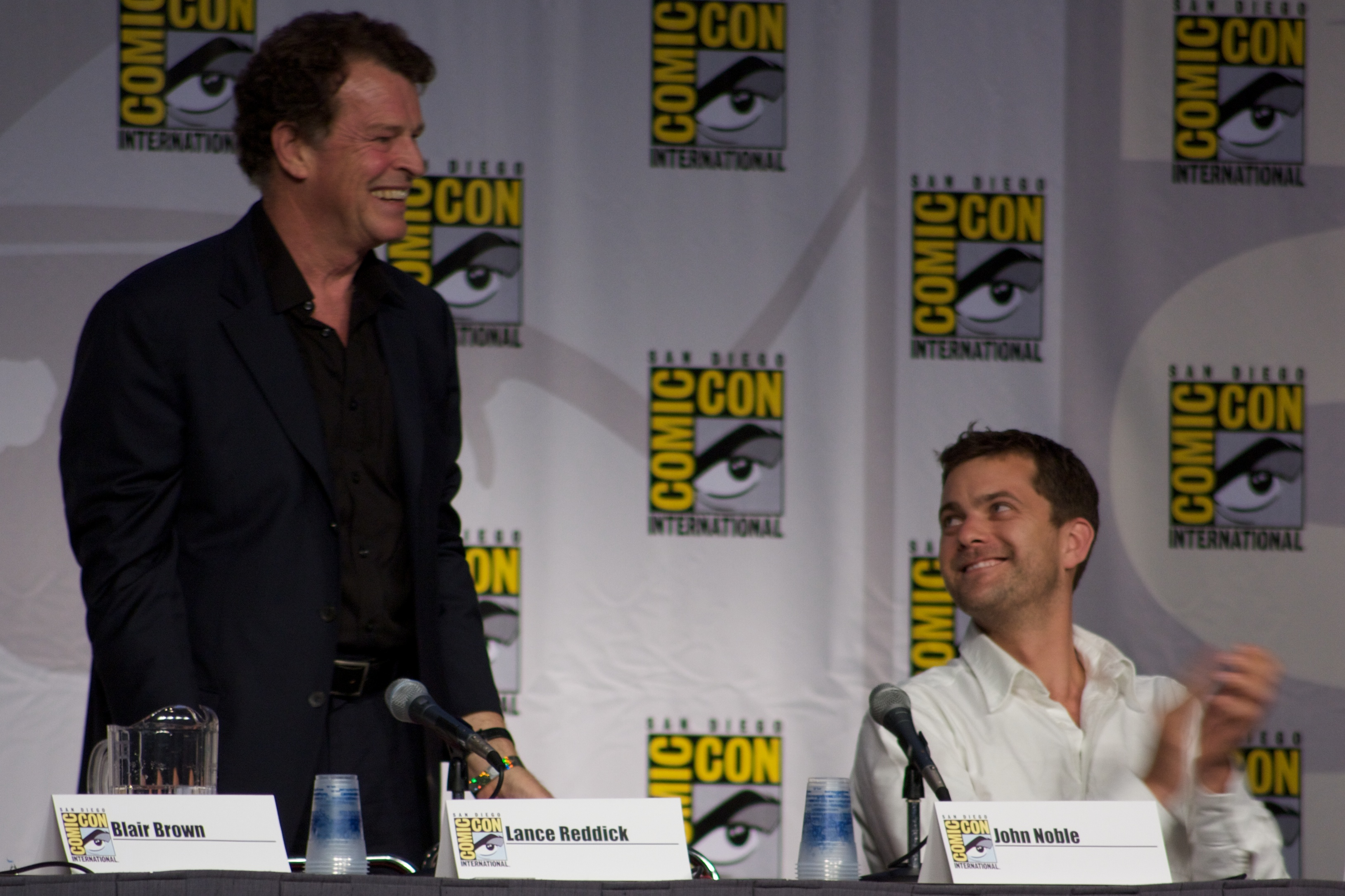 "Fringe" Panel. Actors John Noble and Joshua Jackson at San Diego 2010 Comic-Con International.